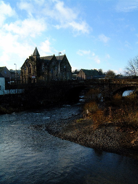 Road Bridge over the River Teviot, Hawick. The town lies at the meeting of two rivers, Teviot Water and the Slitrig. It is the largest of the Scottish Border towns.